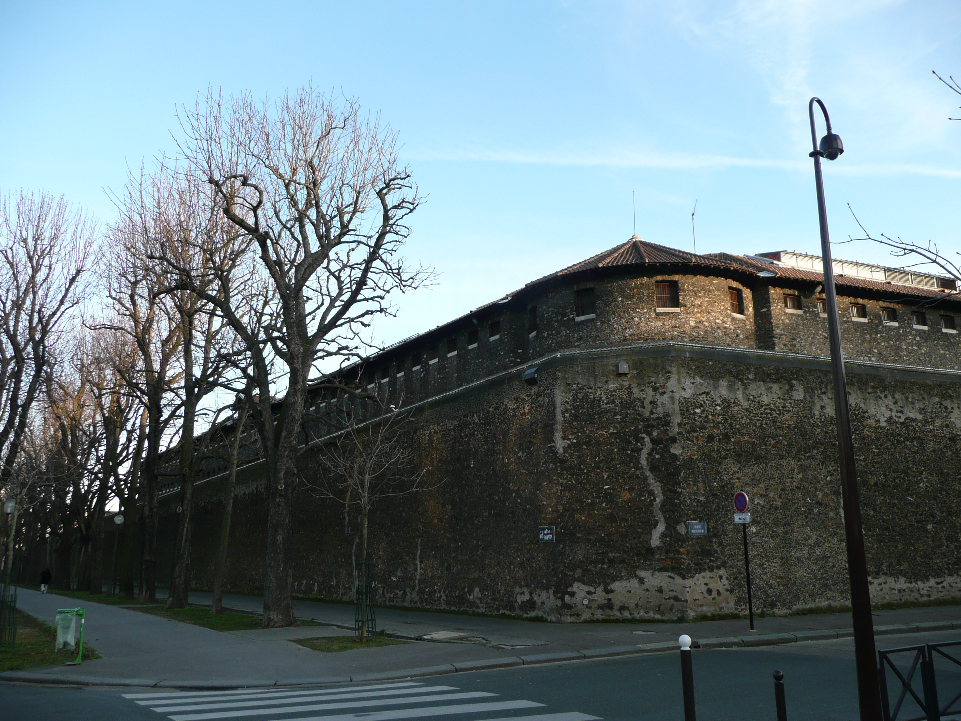 North façade of the La Santé Prison, located along Arago Boulevard